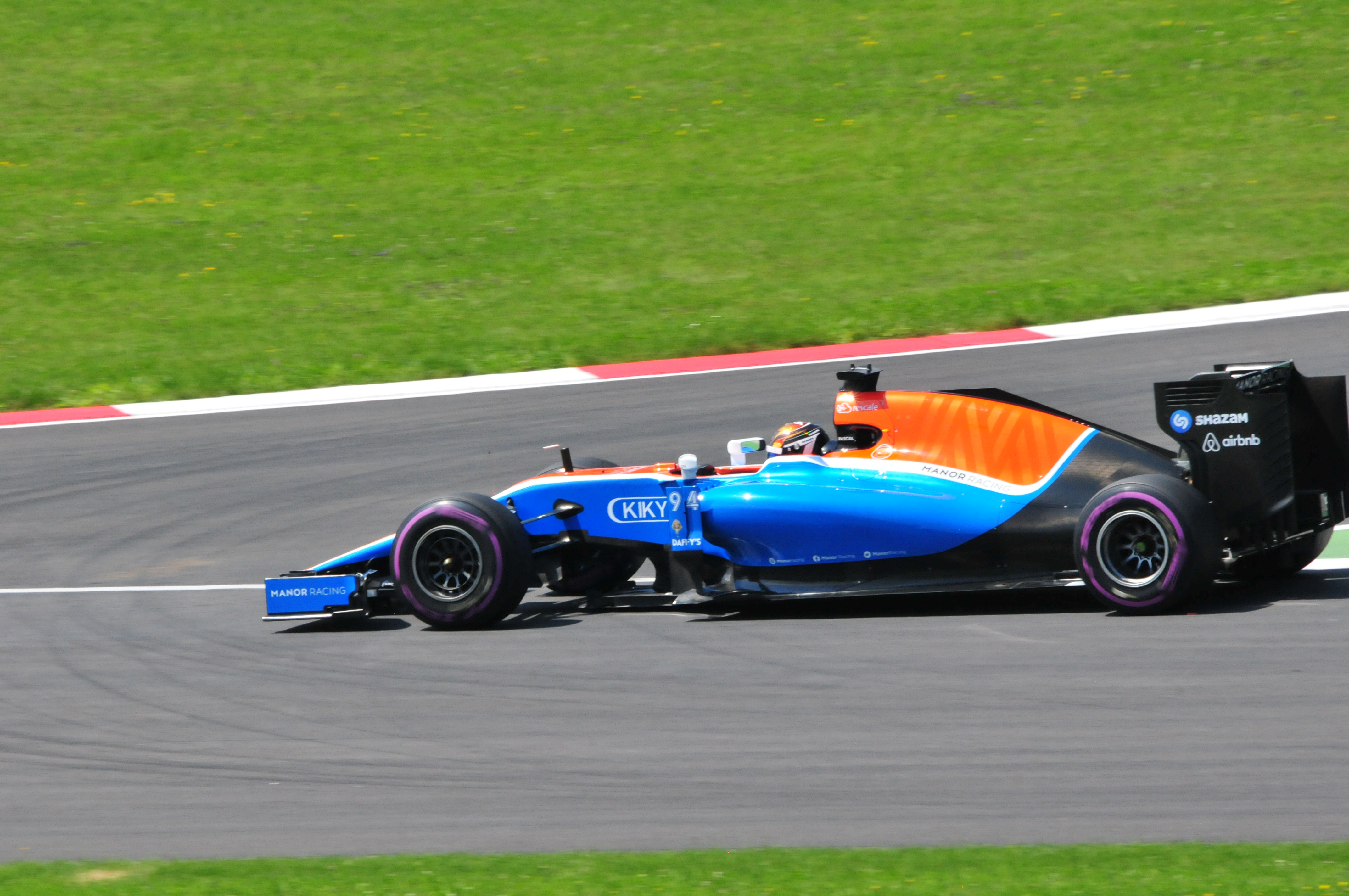 Pascal Wehrlein at the 2016 Austrian Grand Prix